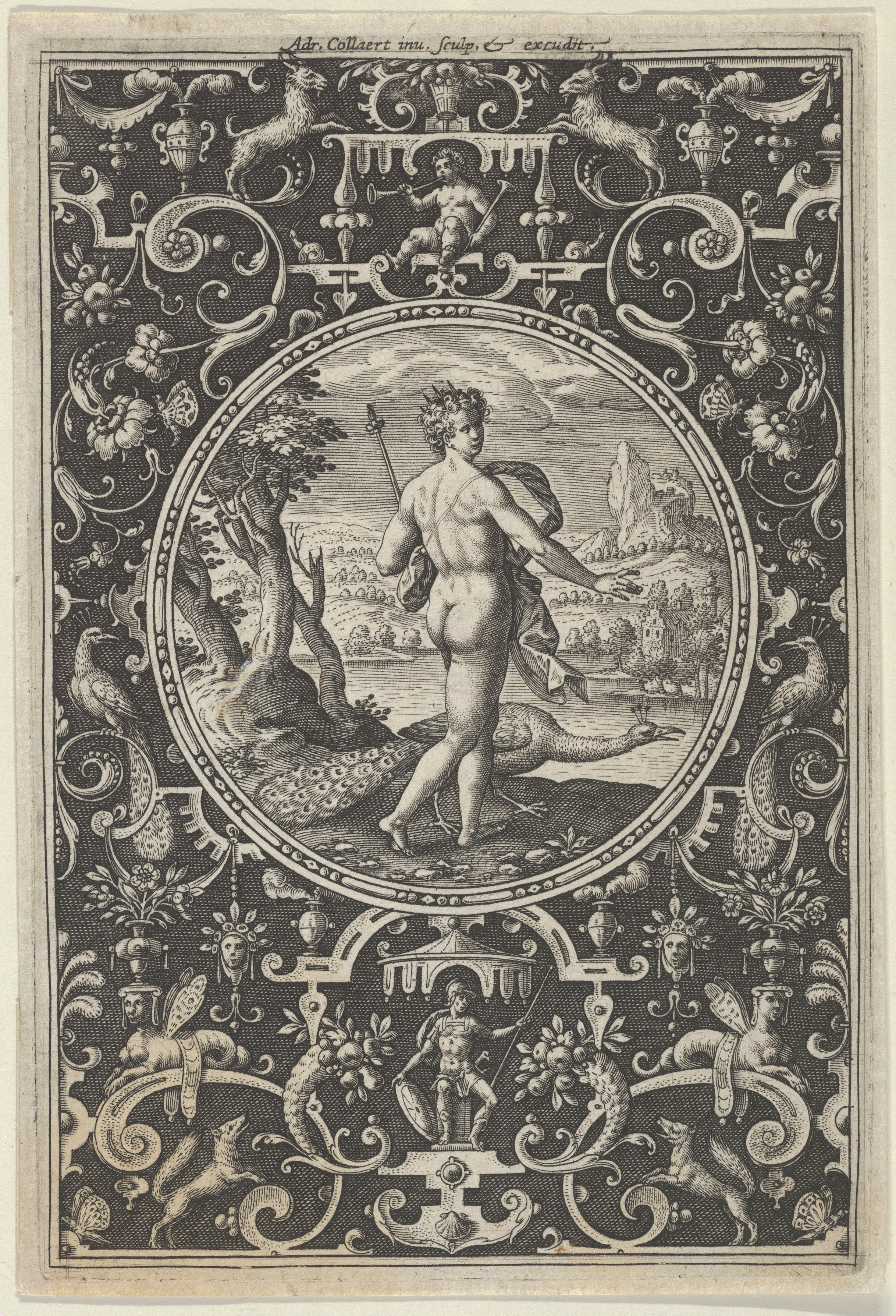 Print ornament & architecture; Ornament & Architecture/Prints